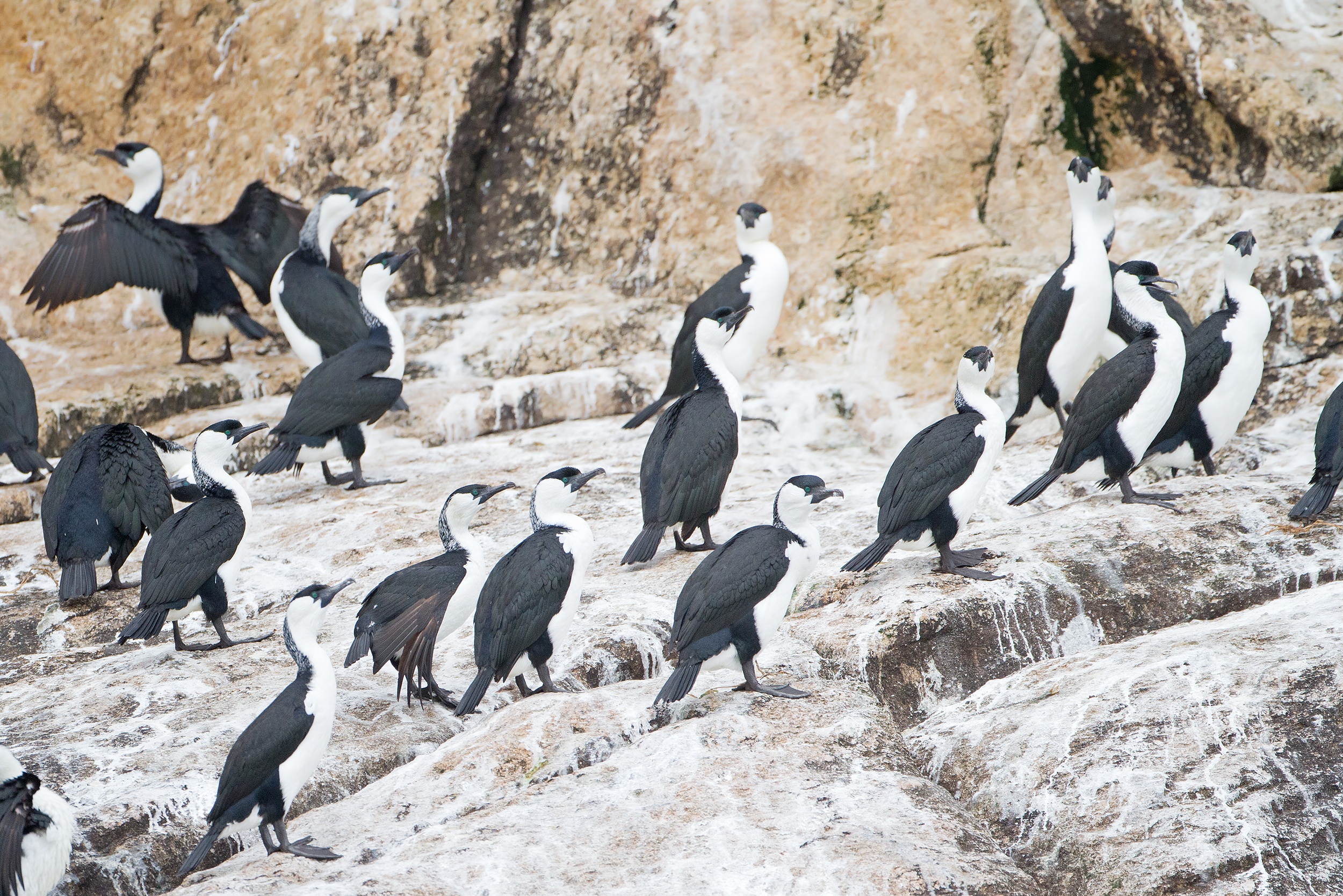 Black-faced Cormorant (Phalacrocorax fuscescens), Hippolyte Rock, Tasmania, Australia